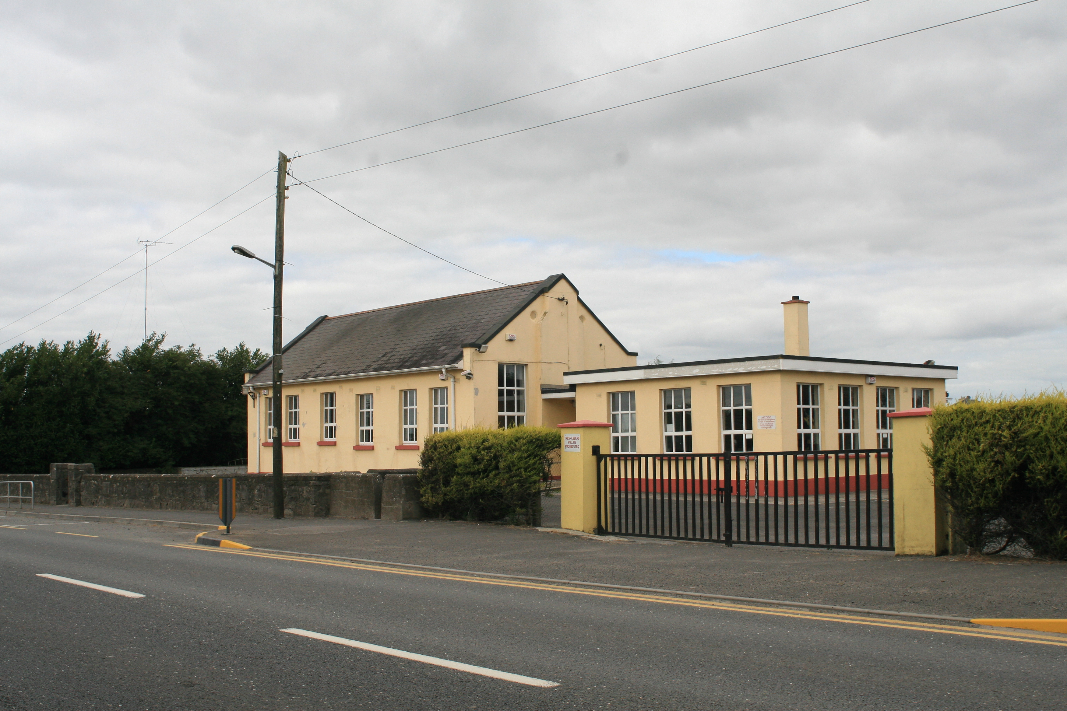 Clonard, County Meath, Ireland Primary school